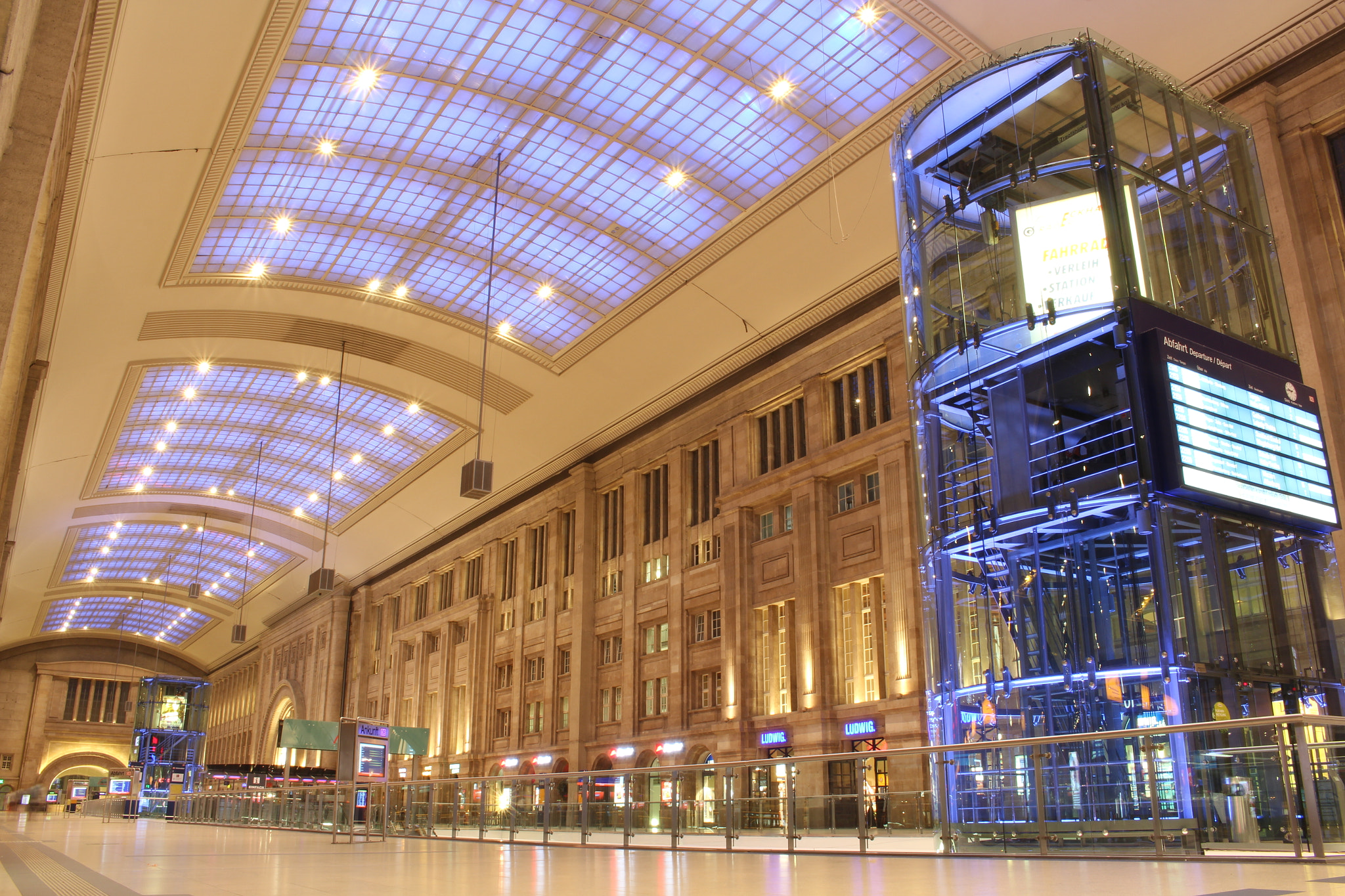 500px provided description: Leipziger Bahnhof [#city ,#downtown ,#capital ,#town hall ,#hauptbahnhof ,#grand central station ,#townhall ,#marienplatz ,#grand central ,#centrum ,#hotel de ville ,#kobenhavn]